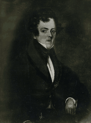 Portrait of John Dickens (1785–1851)